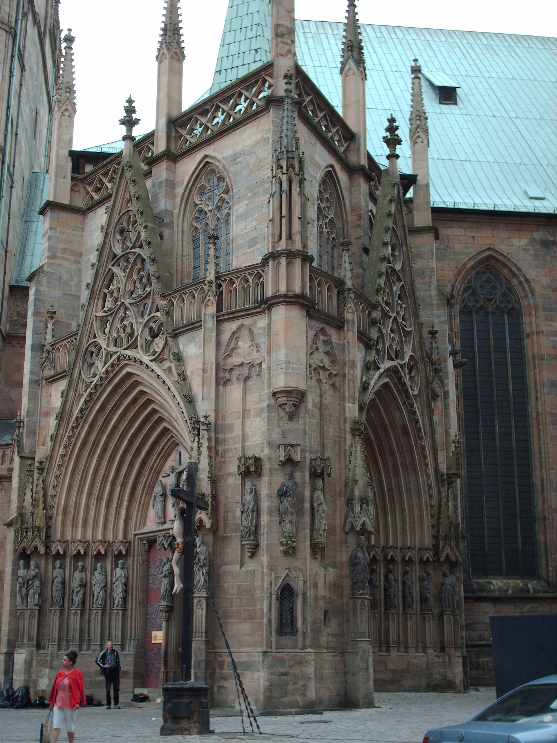 Erfurt, gothic gate of Cathedral, 1330